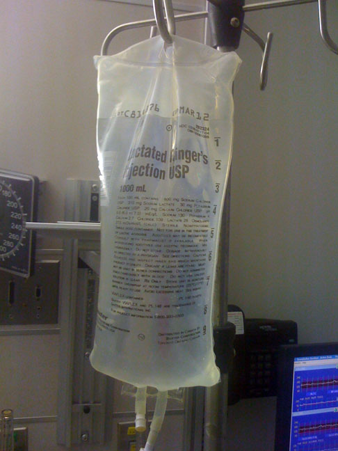 A photo of Lactated Ringer's solution being administered via IV.